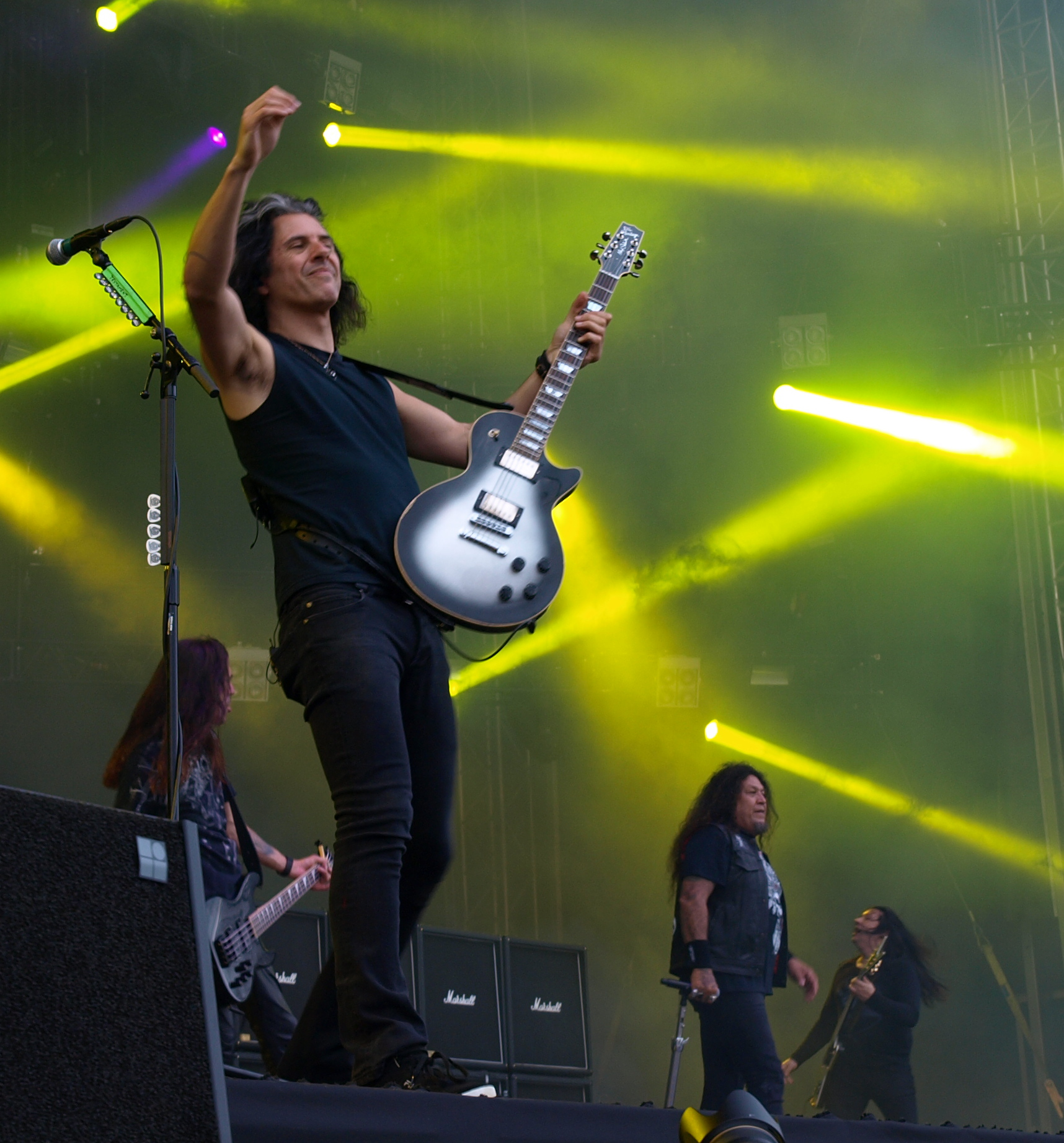 US-American thrash metal band Testament live at Tuska Open Air 2013